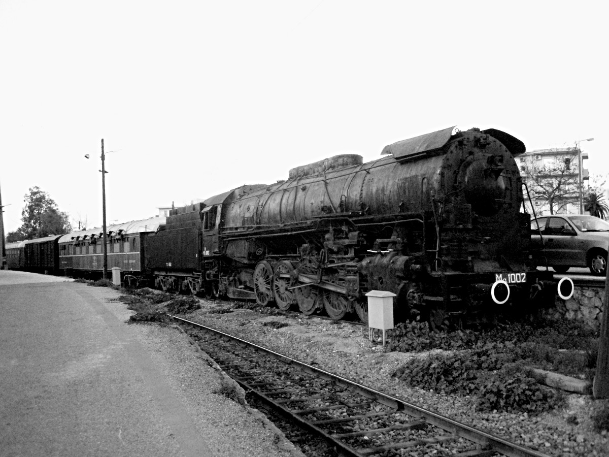 GREECE: Ansaldo/Breda SEK class Μα steam locomotive ΜΑ-1002 on display at Rouf Station.